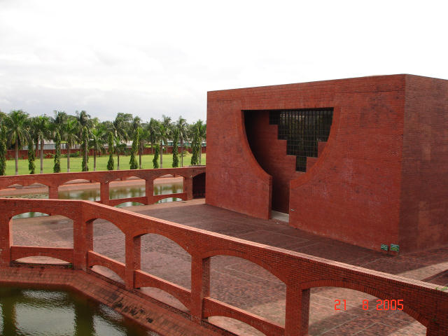 Captured by me and my friends.